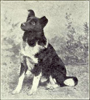 Iceland Dog from 1915